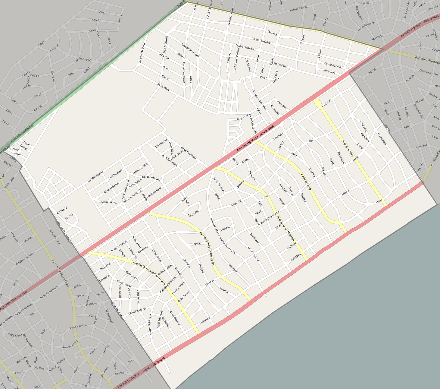 Street map of Lomas de Solymar, resort of the Ciudad de la Costa, Canelones Department, Uruguay, exported from OpenStreetMap. I added shading to delimit the resort. This map may be incomplete, and may contain errors. Don't rely solely on it for navigation.